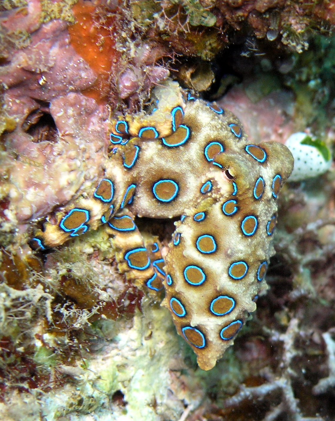 Image of a Greater blue-ringed octopus. Hapalochlaena lunulata. Taken at Tasik Ria, North Sulawesi, Indonesia.